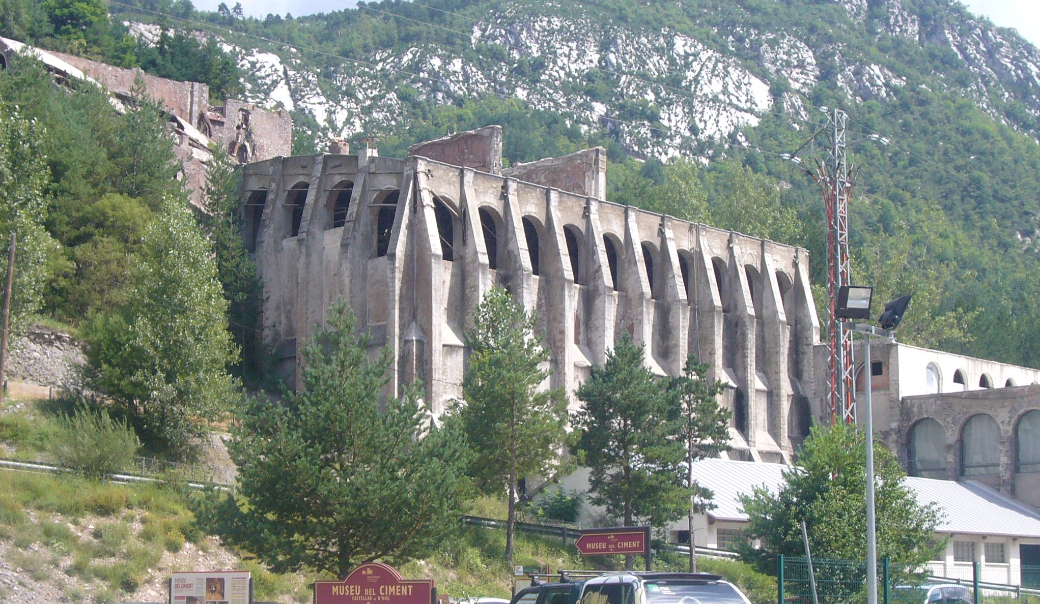 Old cement factory "Asland", created in 1901 in Catalonia.